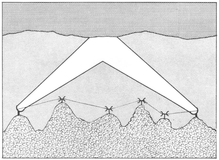 Original description: Tropospheric scatter and Line of Sight Communications